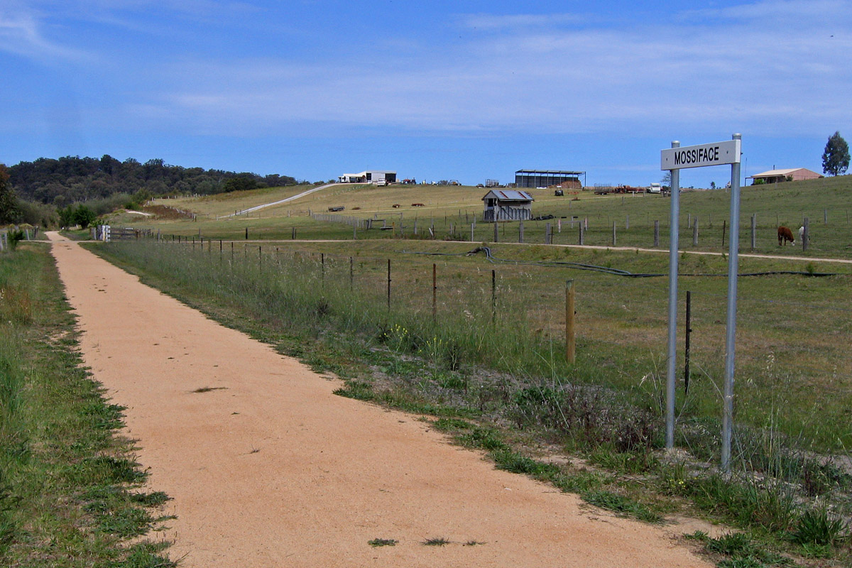 Looking south (towards Bairnsdale) on the East Gippsland Rail Trail at the site of the former Mossiface Railway Station, Victoria, Australia.